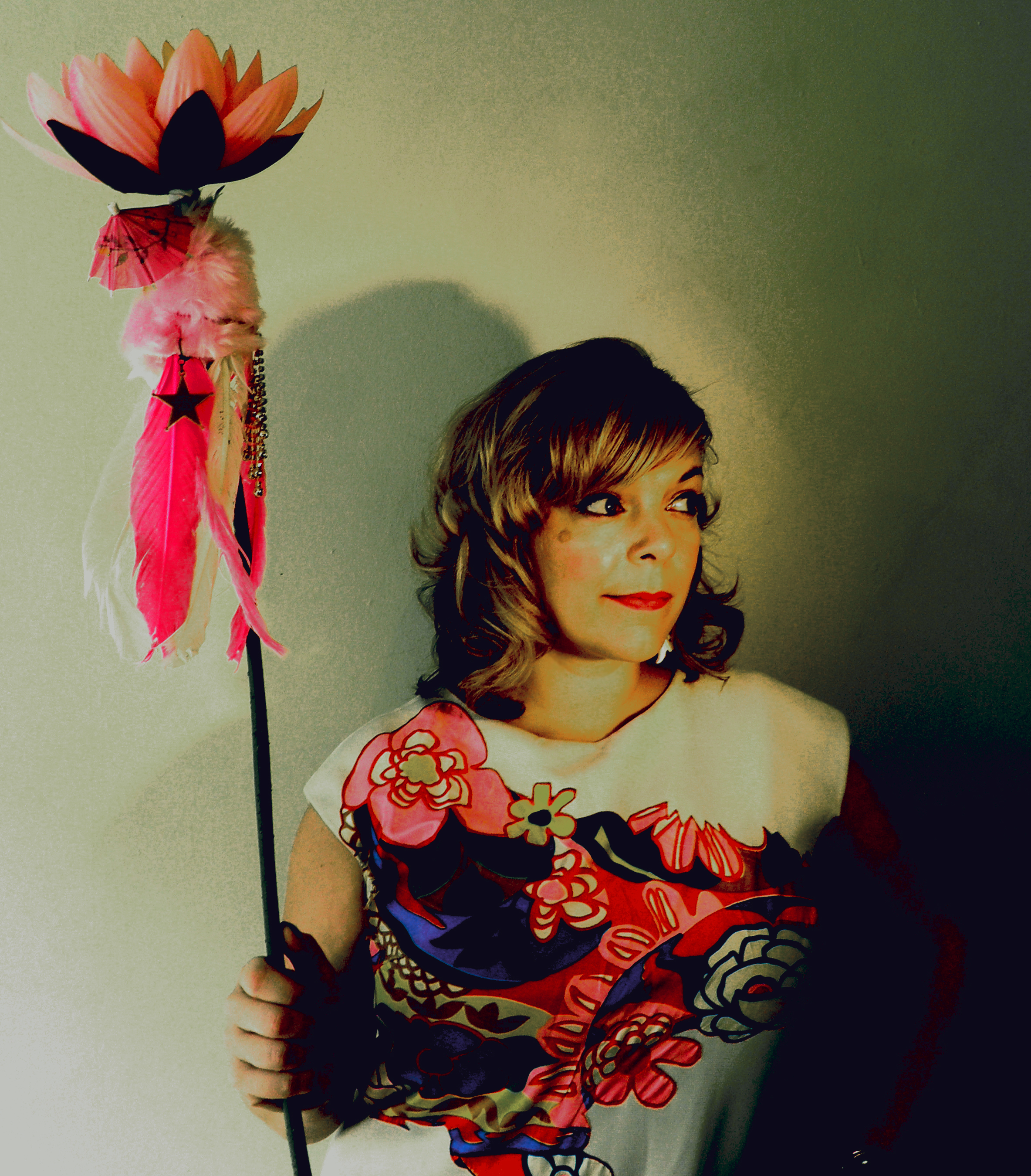 Hola, PIney Gir!